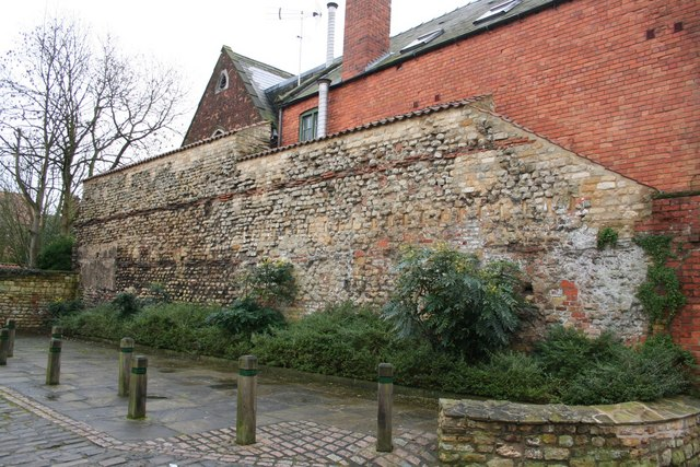 Mint Wall Late 2nd / early 3rd century stretch of Roman wall that was part of the outer wall of the basilica, the northern range of the forum complex of Lindum Colonia. The 18th century Lincolnshire antiquarian William Stukeley erroneously named it 'mint wall' and the name has stuck. The wall is 23m (76 feet) long and 7m (23ft) high, with about 2m (6ft) below ground level.